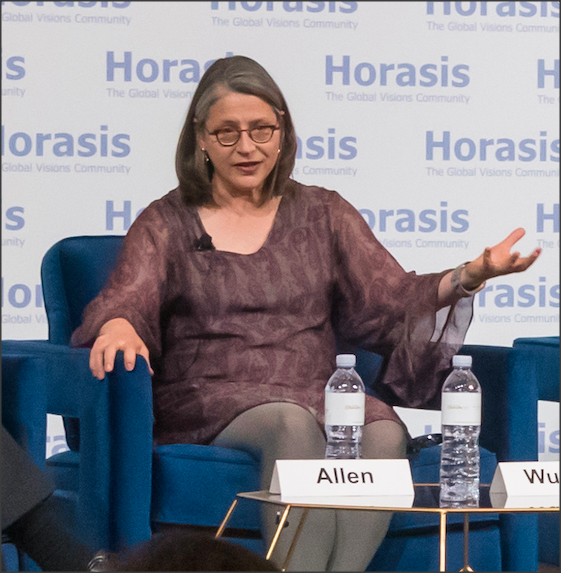 Michele Wucker speaking at Horasis Global China Business Meeting 2019